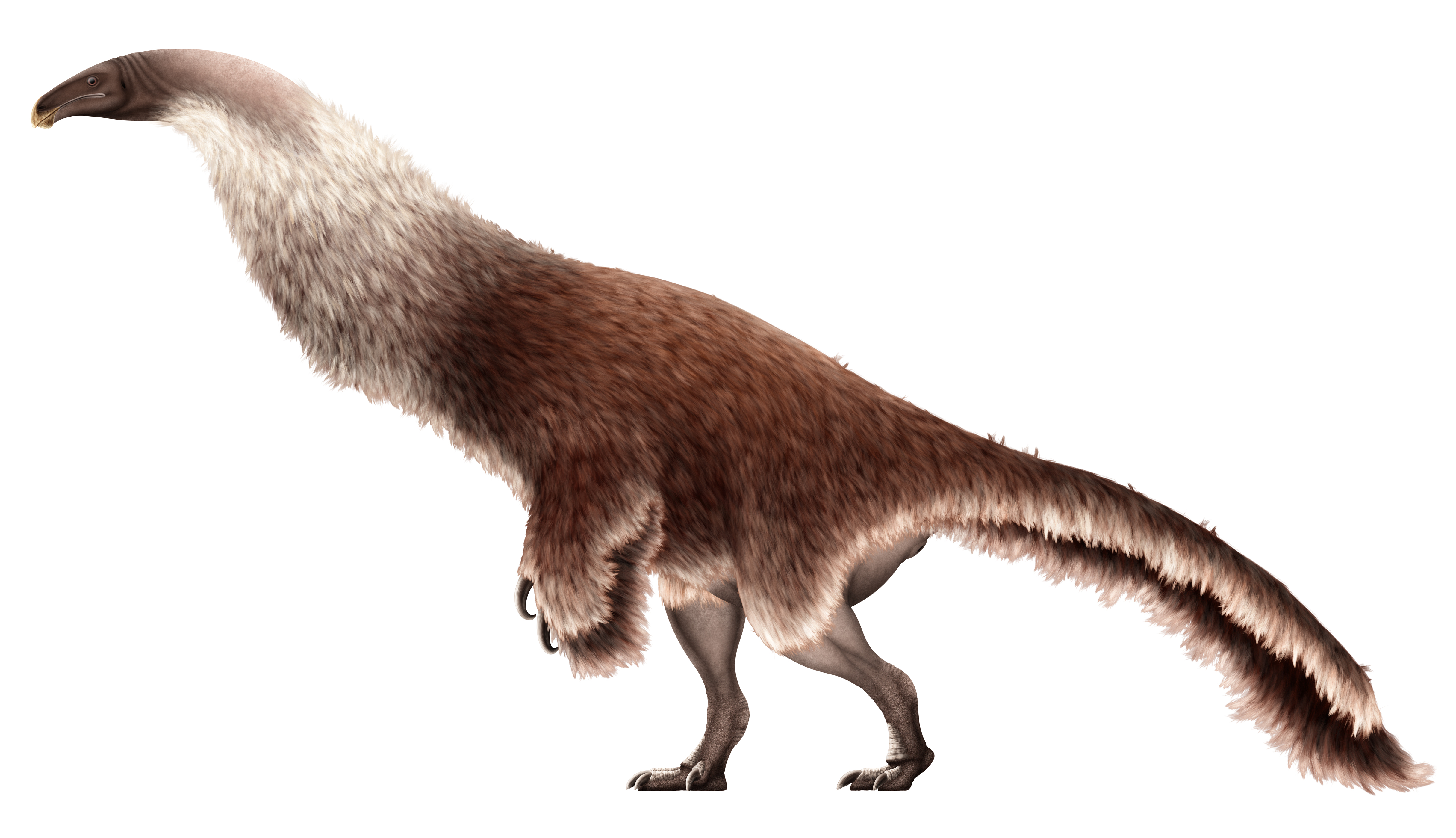 Life restoration of the therizinosaur Enigmosaurus mongoliensis.